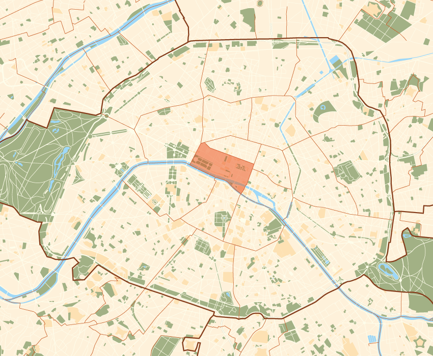 Plan by ThePromenader (own work)